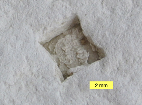 Halite crystal mold in the Paadla Formation, Soeginina Beds (Silurian), Saaremaa Island, Estonia.